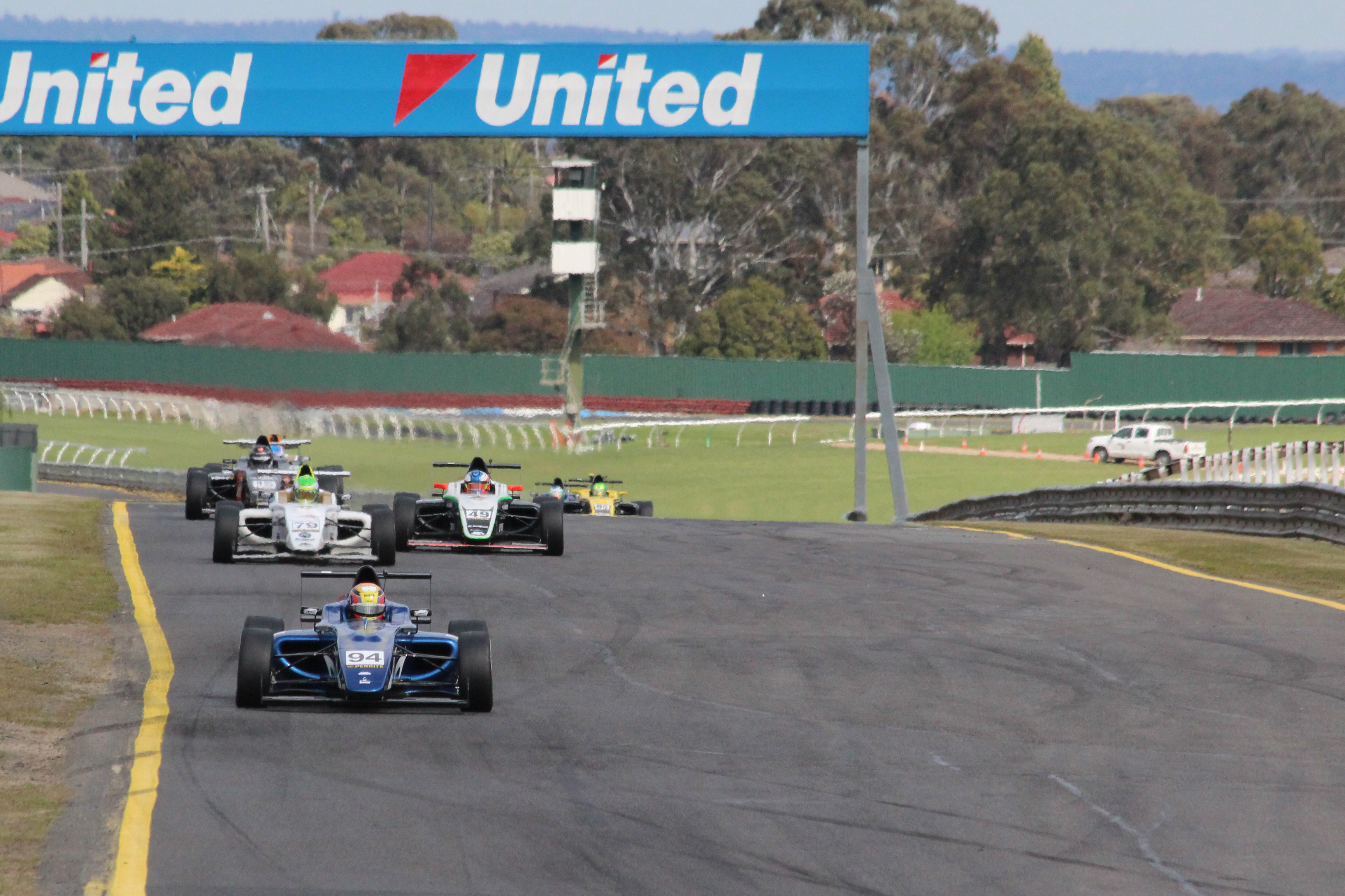 Jordan Lloyd leads the field on the first lap of Race 2 of Round 4 of the Australian Formula 4 Championship at the 2015 Wilson Security Sandown 500.